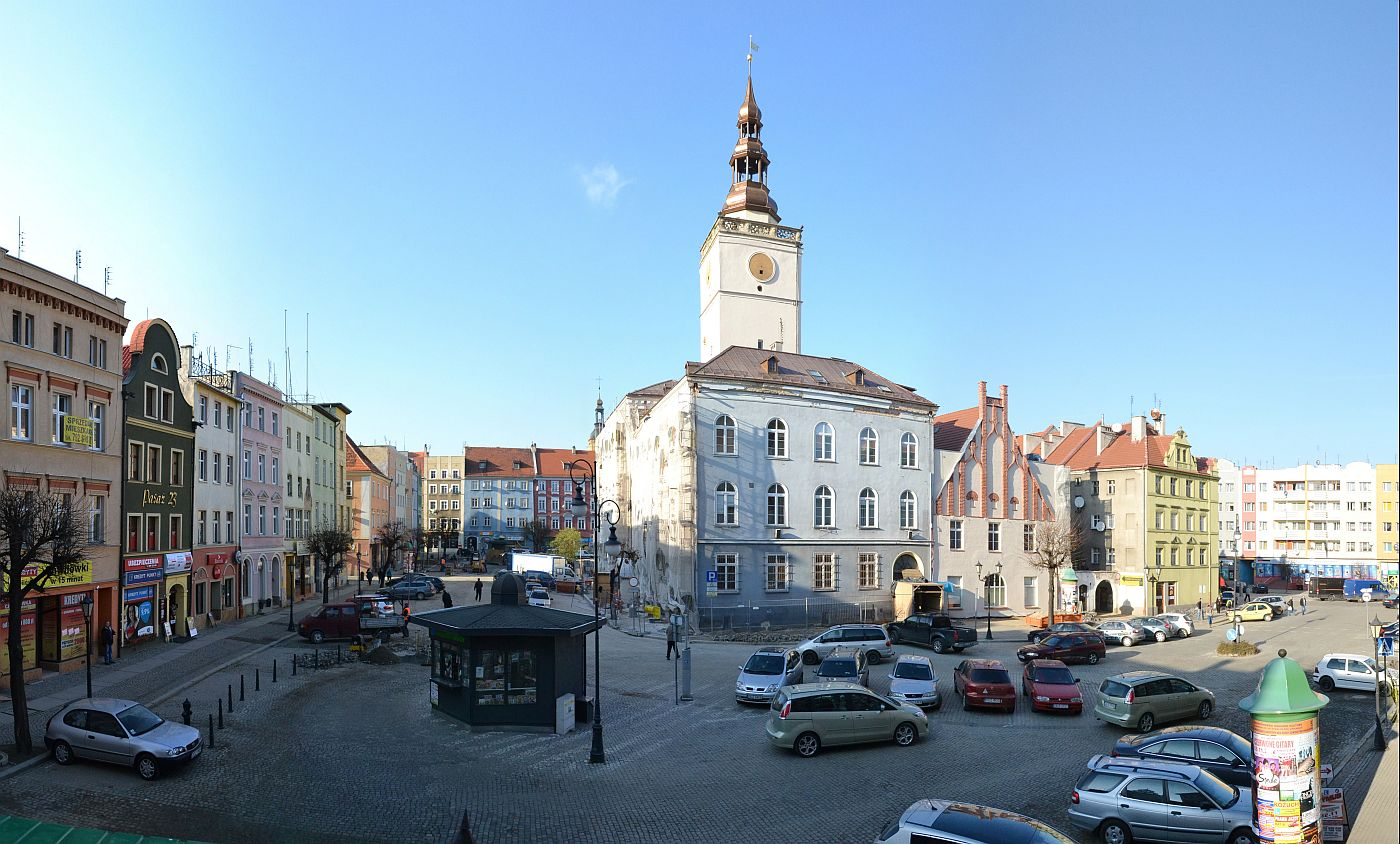 town hall